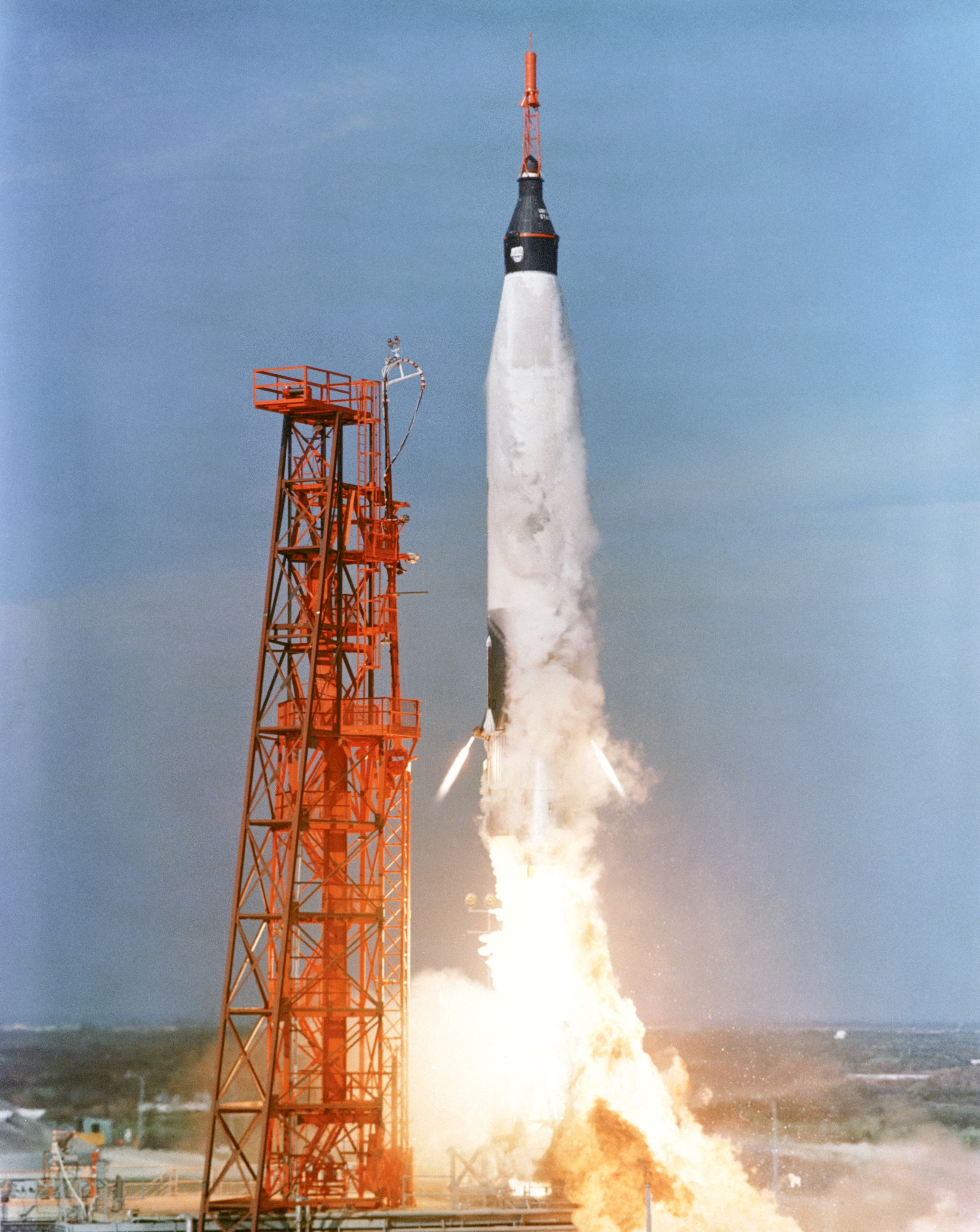 View of the lift-off of Mercury-Atlas 5 carrying space chimp "Enos" on November 29, 1961 from Kennedy Space Center.